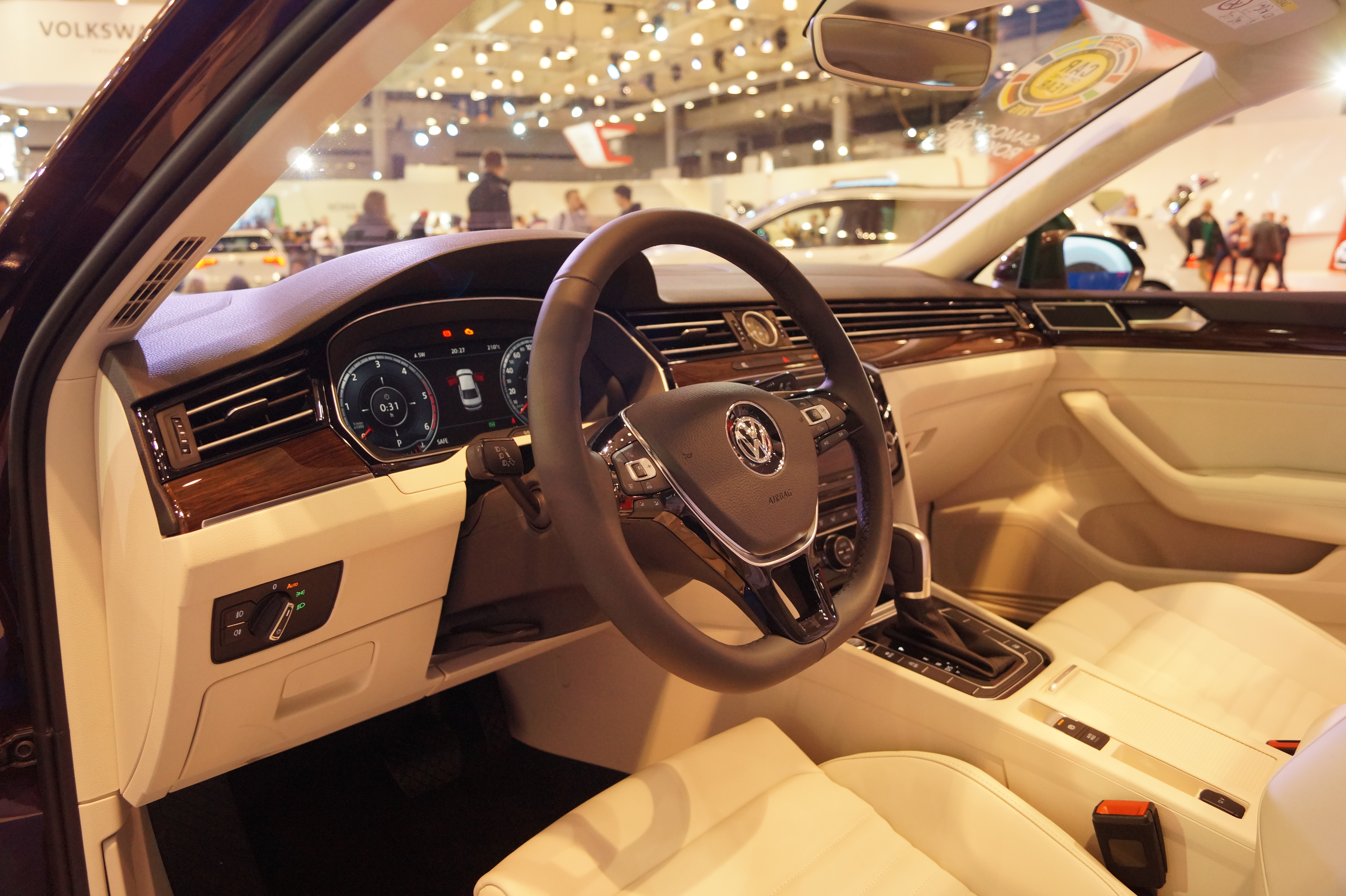 The making of this document was supported by Wikimedia Polska Association, within Wikigrant no. WG 2015-19. Wnętrze Volkswagena Passata na Motor Show Poznań 2015